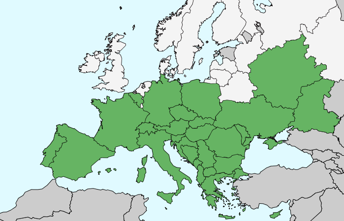 Mantis religiosa - map of distribution in Europe